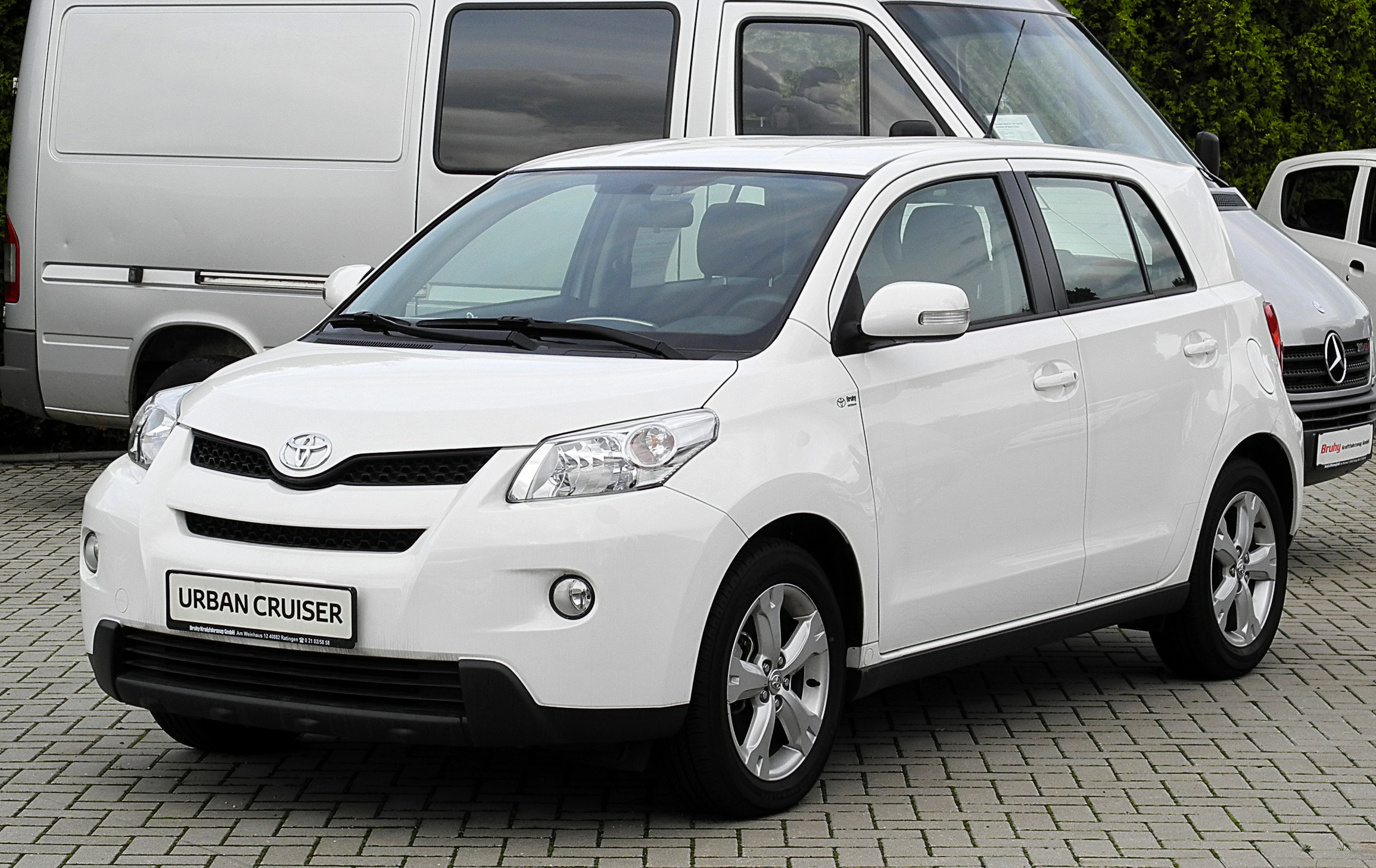 Toyota Urban Cruiser 1.33 Town